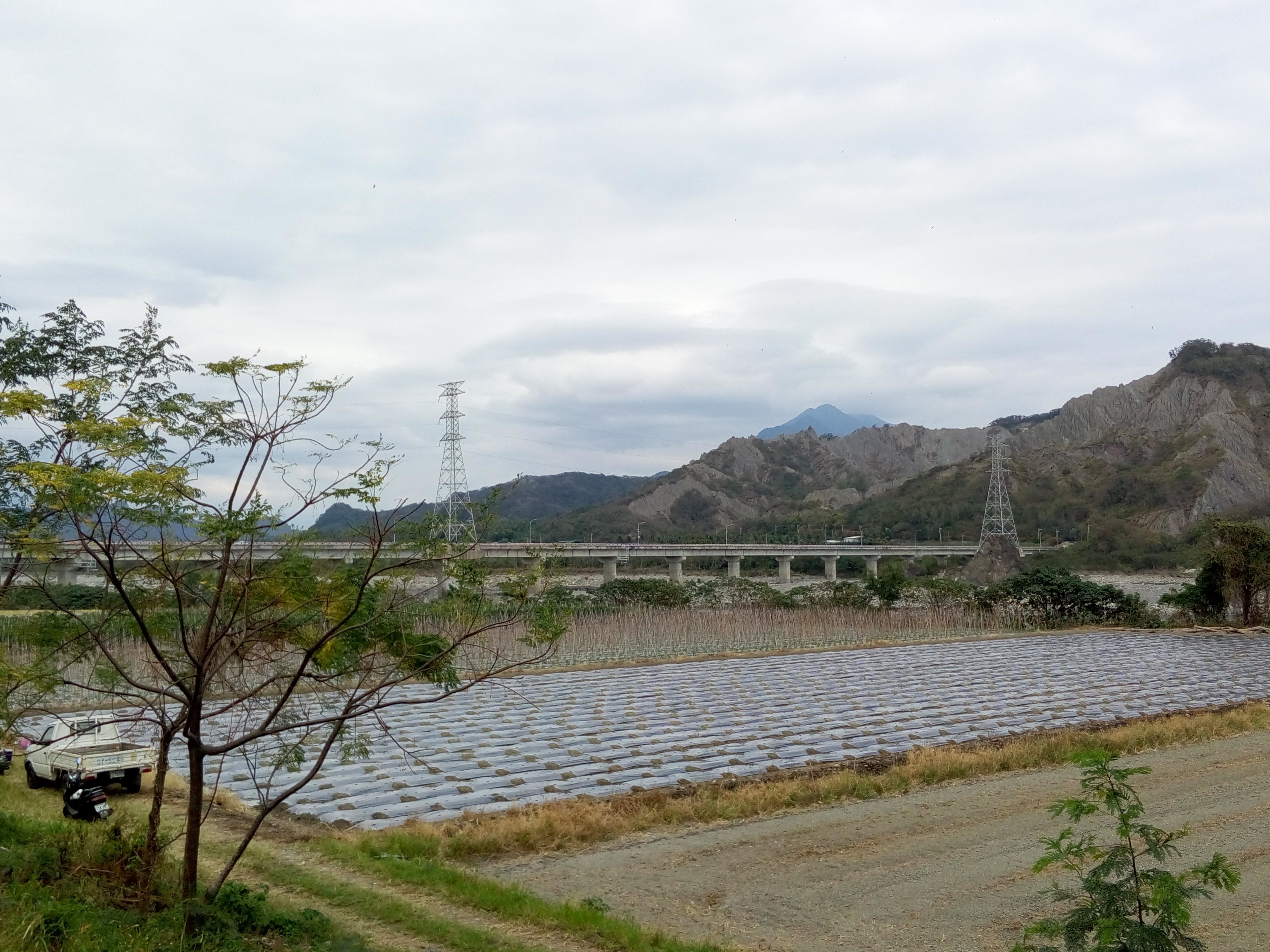 Taiwan(R.O.C)Taitung Liji Bridge